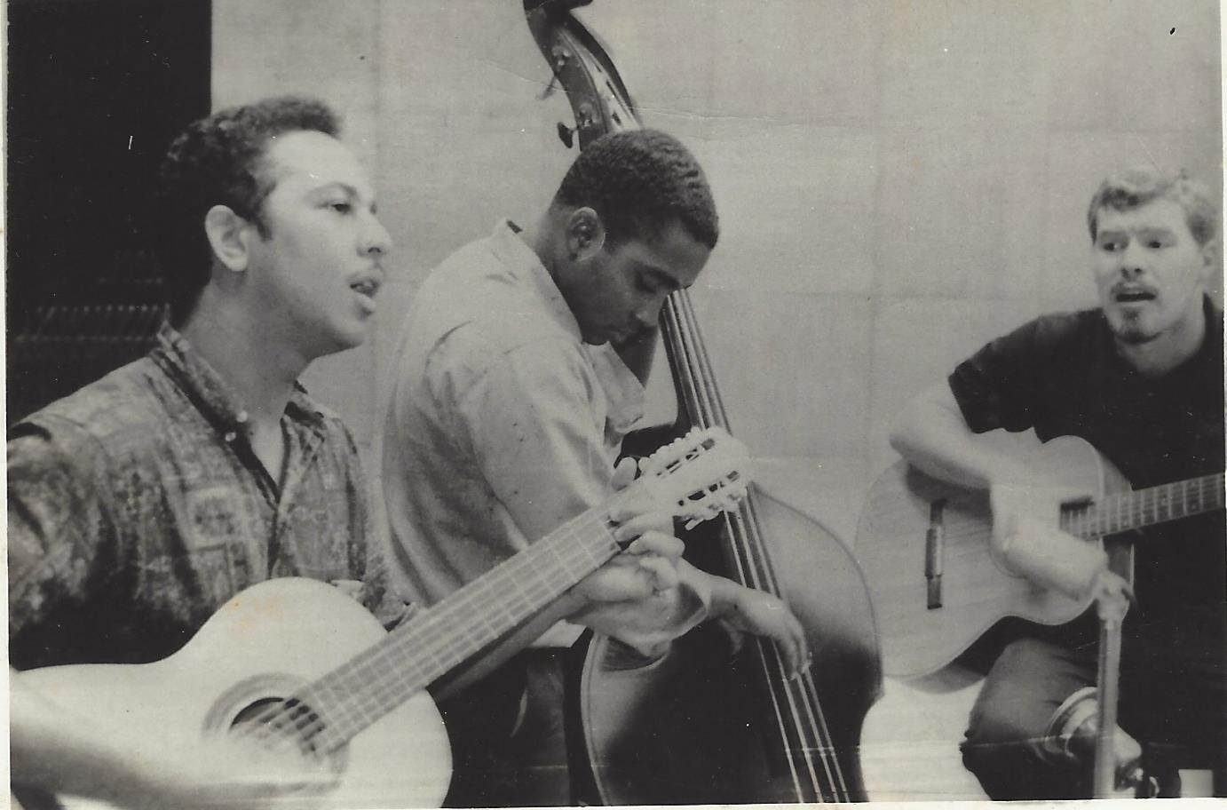 Prof. Colón Tarrats, en "The Casual Trio"